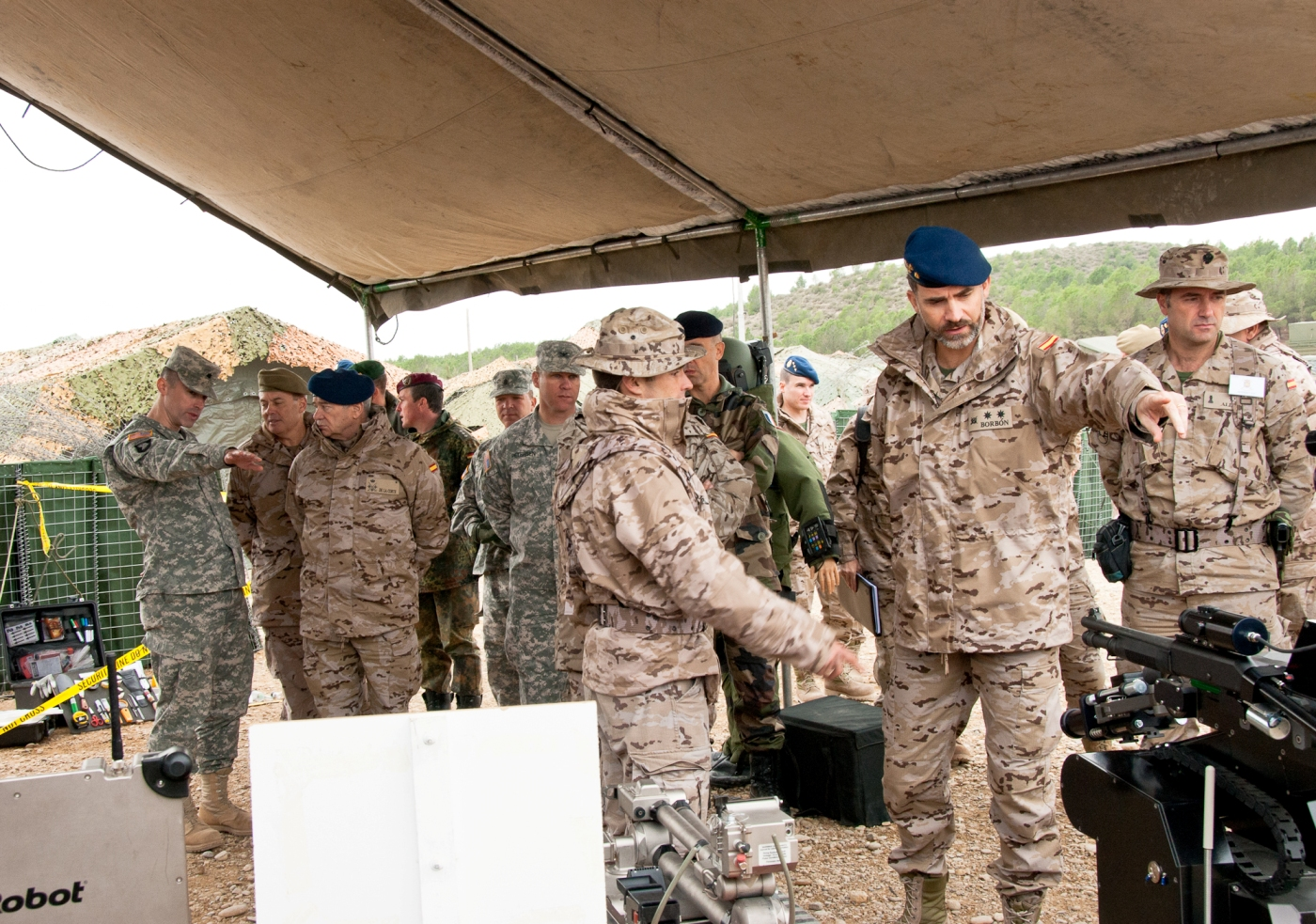 Spain's Crown Prince Felipe de Borbon (in blue beret) speaks with a Spanish engineer soldier about the capabilities of a bomb disposal robot during a visit to Spain's San Gregorio training area to meet with participants in exercise Interdict 12, Oct. 30. The prince was given a demonstration of the capabilities of Spanish engineers and their counterparts from U.S. Army Europe's 18th Engineer Brigade during a live exercise demonstration. Interdict 12, hosted by the Spanish engineers was designed to foster and enhance interoperability and skills among engineer units practicing counter-improvised explosive device operations using a scenario that mirrored combat in Afghanistan. (Photo by Lt. Col. Wayne Marotto)